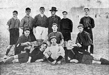 Polish football club Pogoń Jarosław (now JKS 1909 Jarosław) in 1909